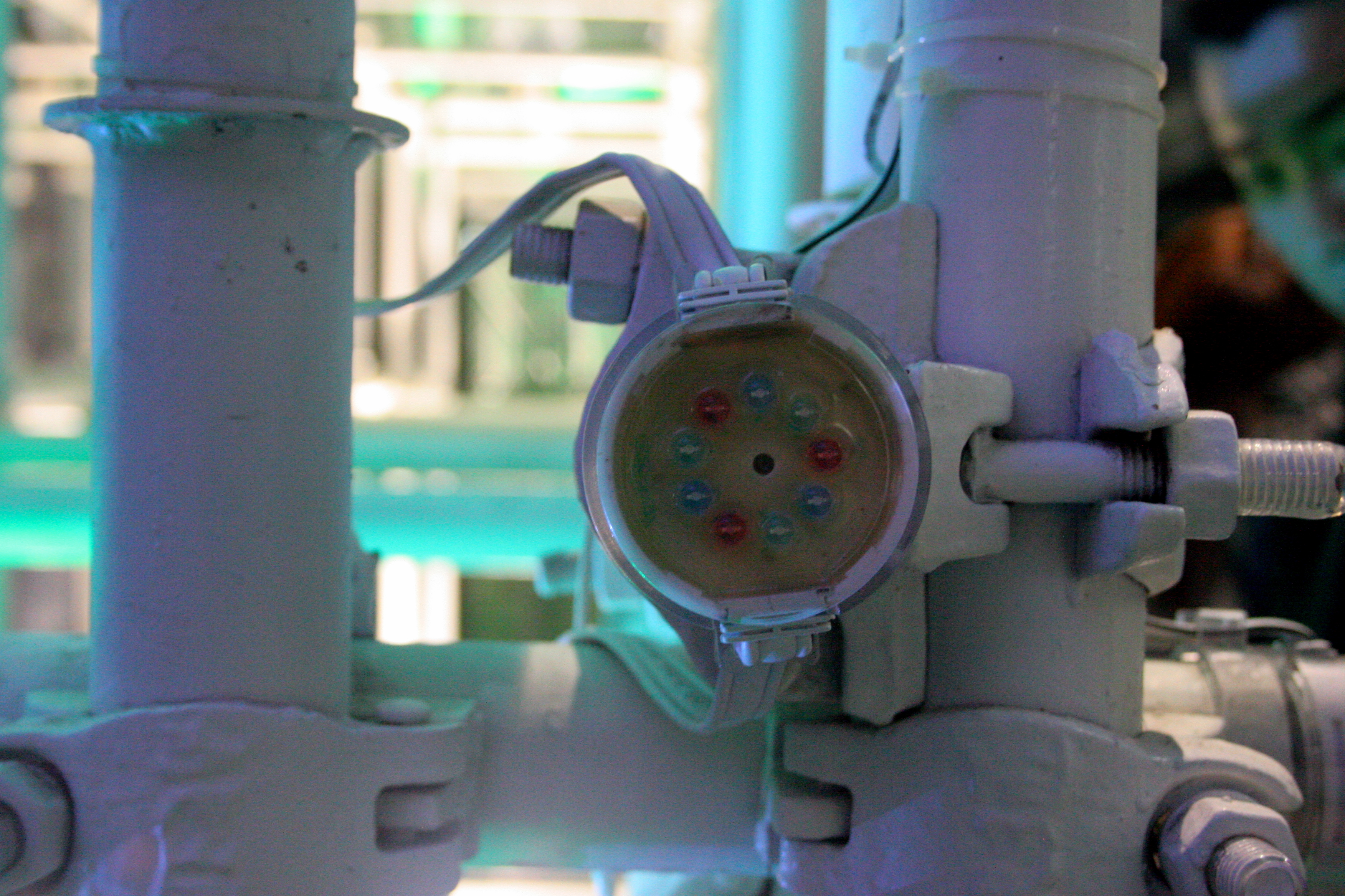 Scaffolding in Japanese Industry Pavilion of Expo 2010